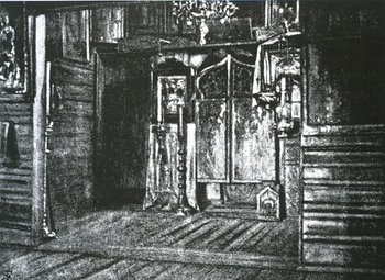 Intertor of the Church of Laying Our Lady’s Holy Robe from the village of Borodava near Ferapontov Monastery. Figure from the book 1899, autor Ivan Brilliantov